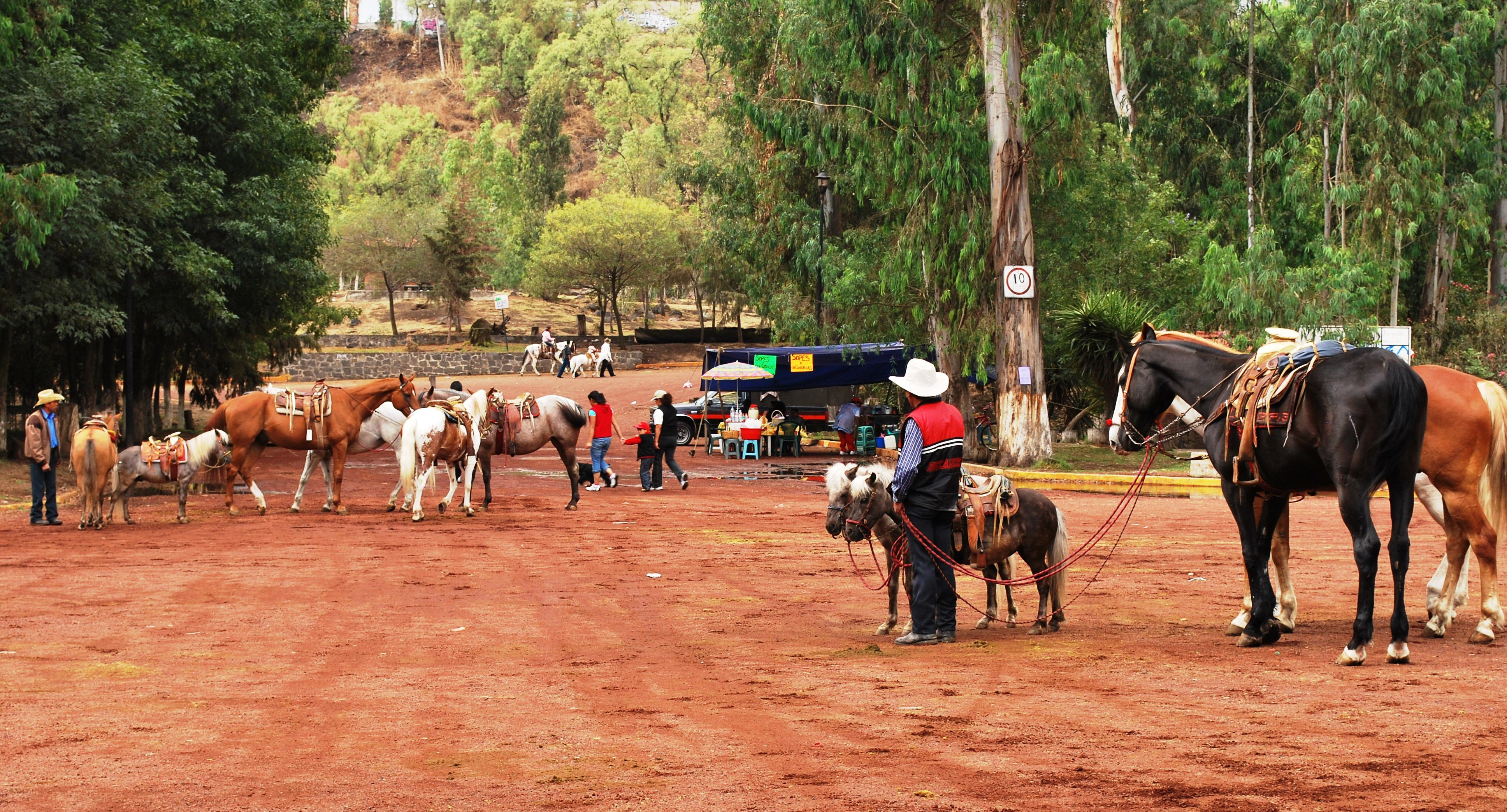 Horses for rent at the Bosque de Nativitas Park in Xochimilco, Mexico City